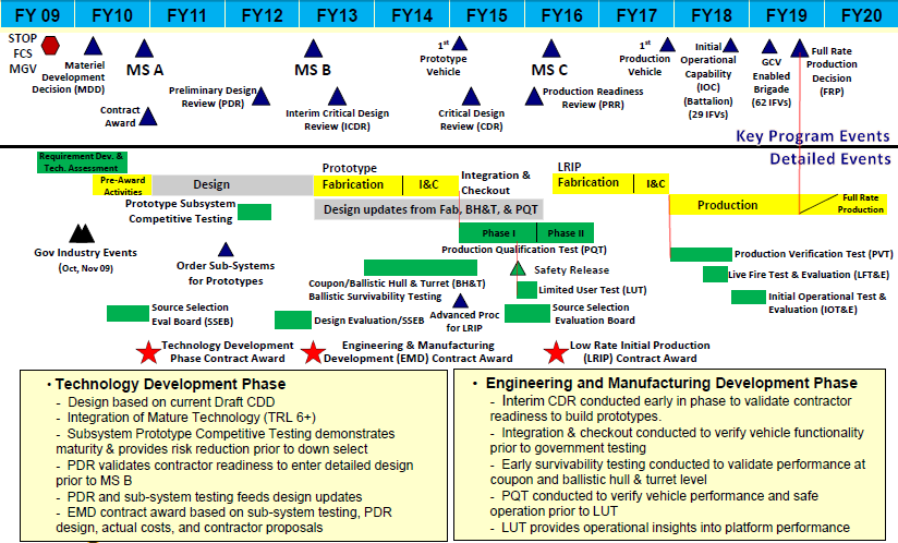 GCV Infantry Fighting Vehicle schedule as of 29 January 2010